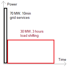 Hornsdale Power Reserve: Diagram of power and duration of the two sections of battery. Horizontal scale is one pixel per minute, vertical scale is three pixels per MW. This diagram is inaccurate because the rectangles should be stacked, totalling 100 MW peak output power. The total area is 18300 pixels = 6100 MW·min = 101.7 MW·h which is the 129 MW·h capacity minus some margin to increase the lifetime.